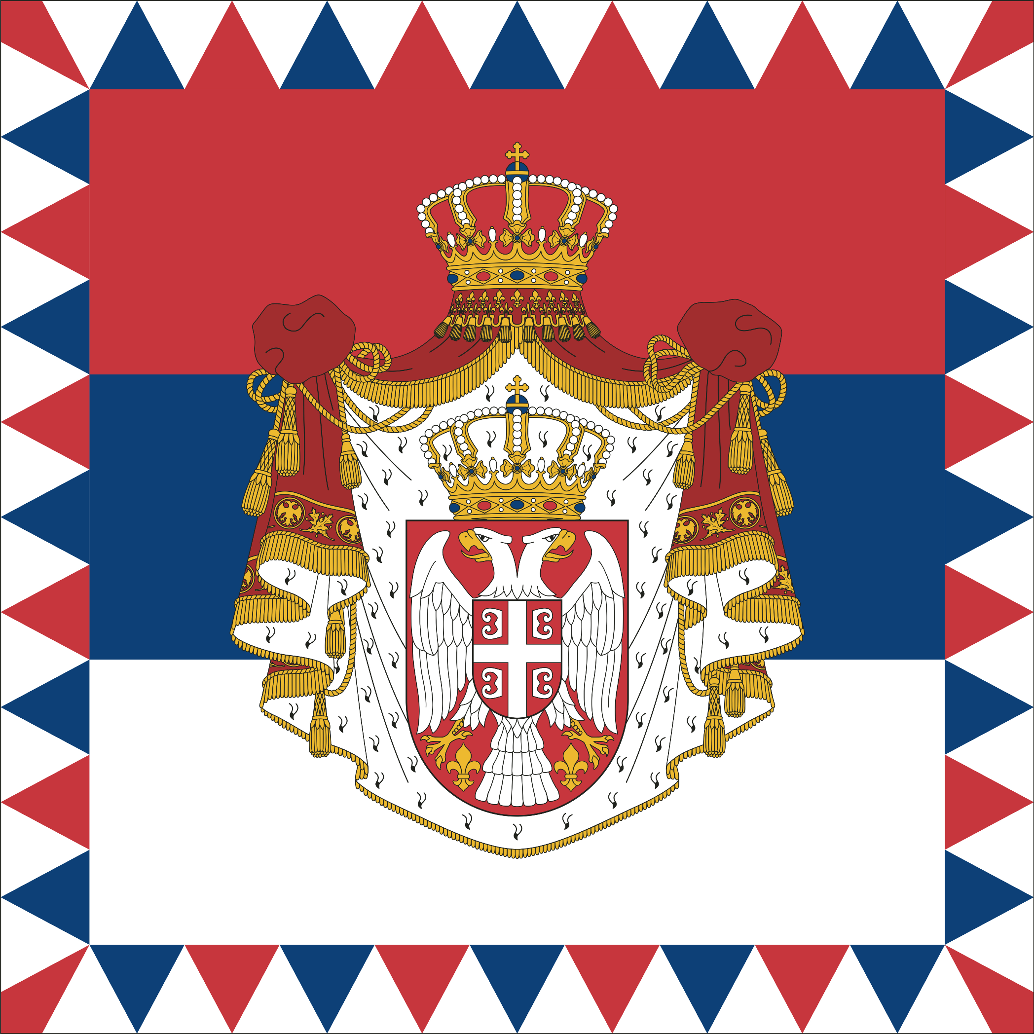 Standard of the President of Serbia.